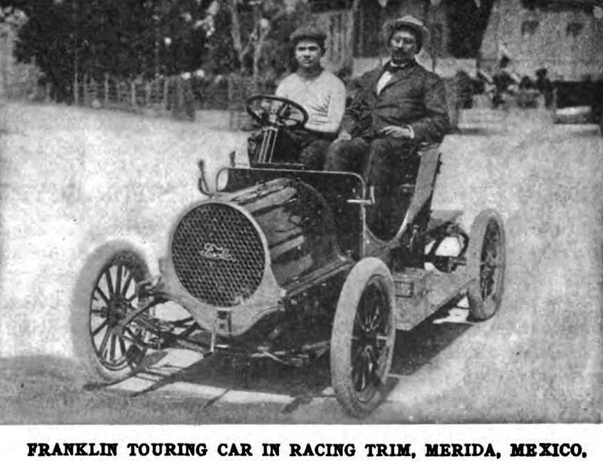 Franklin auto in race in Trim, Merida, Mexico